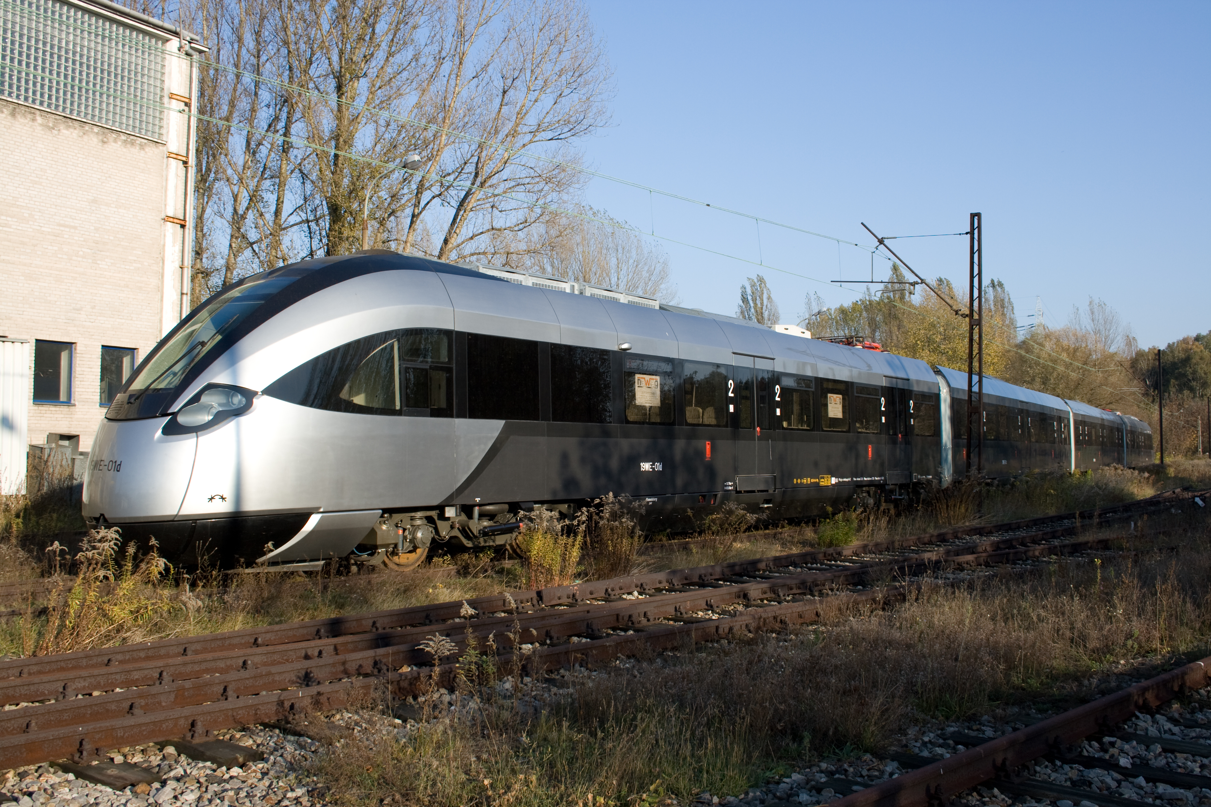 Traction unit Newag 19WE in Warsaw, Poland.